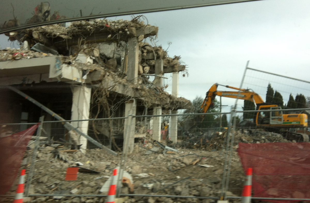 Quick snap of the Hornby clocktower being demolished. Taken from inside a moving vehicle. Was on the 3rd of October 2014 (NZDT) during later demolition.